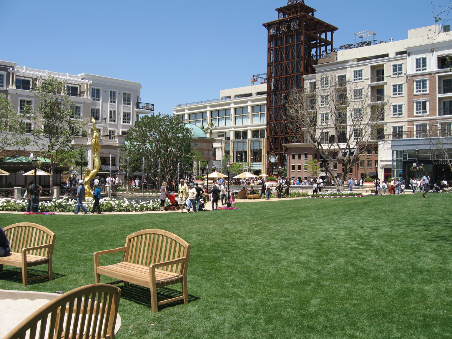 The Americana at Brand - Opening Day - May 2, 2008